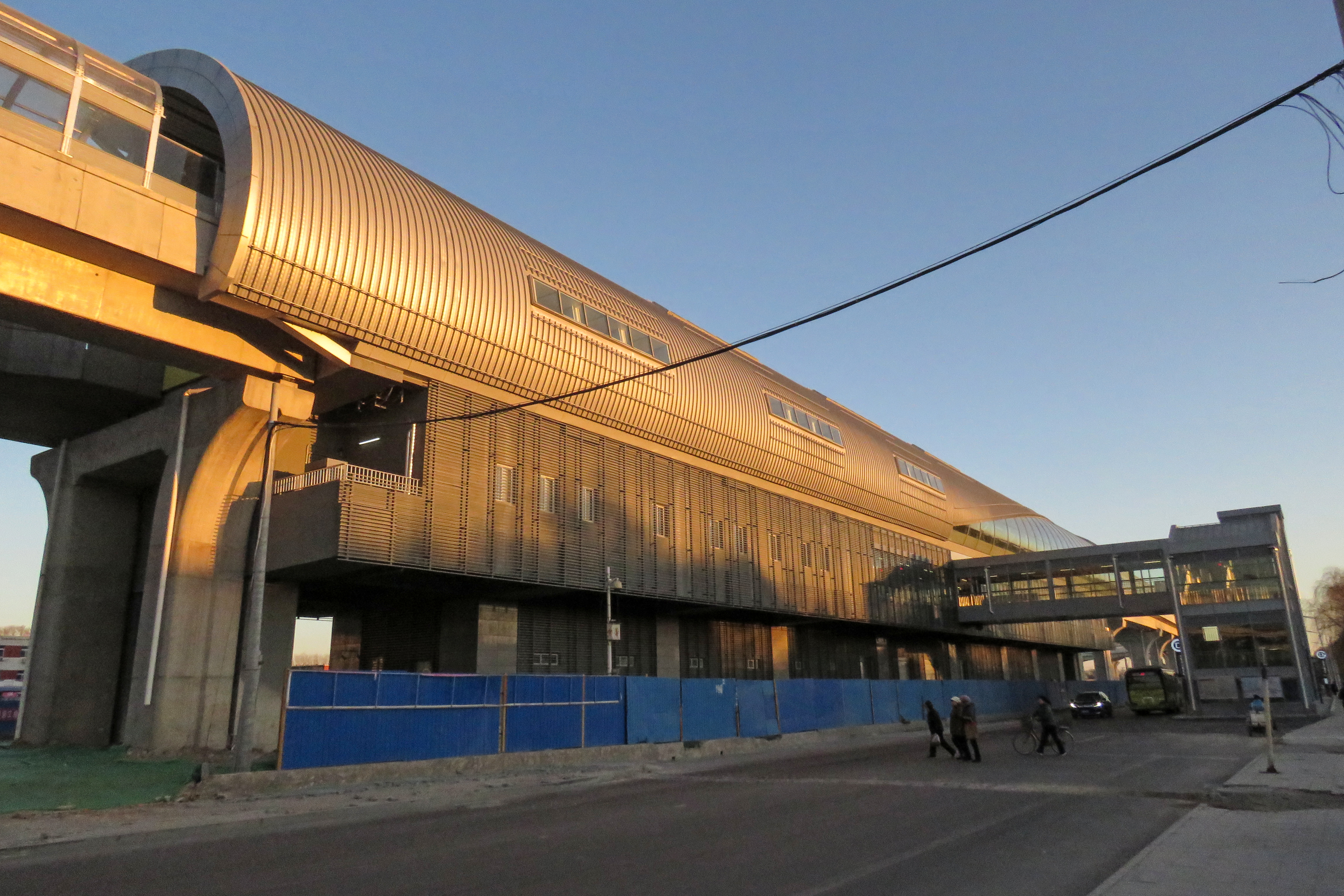 Corresponding bus stop: Fangshan Railway Station.